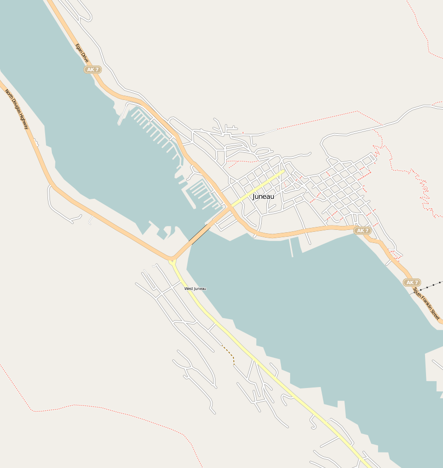 Map of Juneau showing bridge.